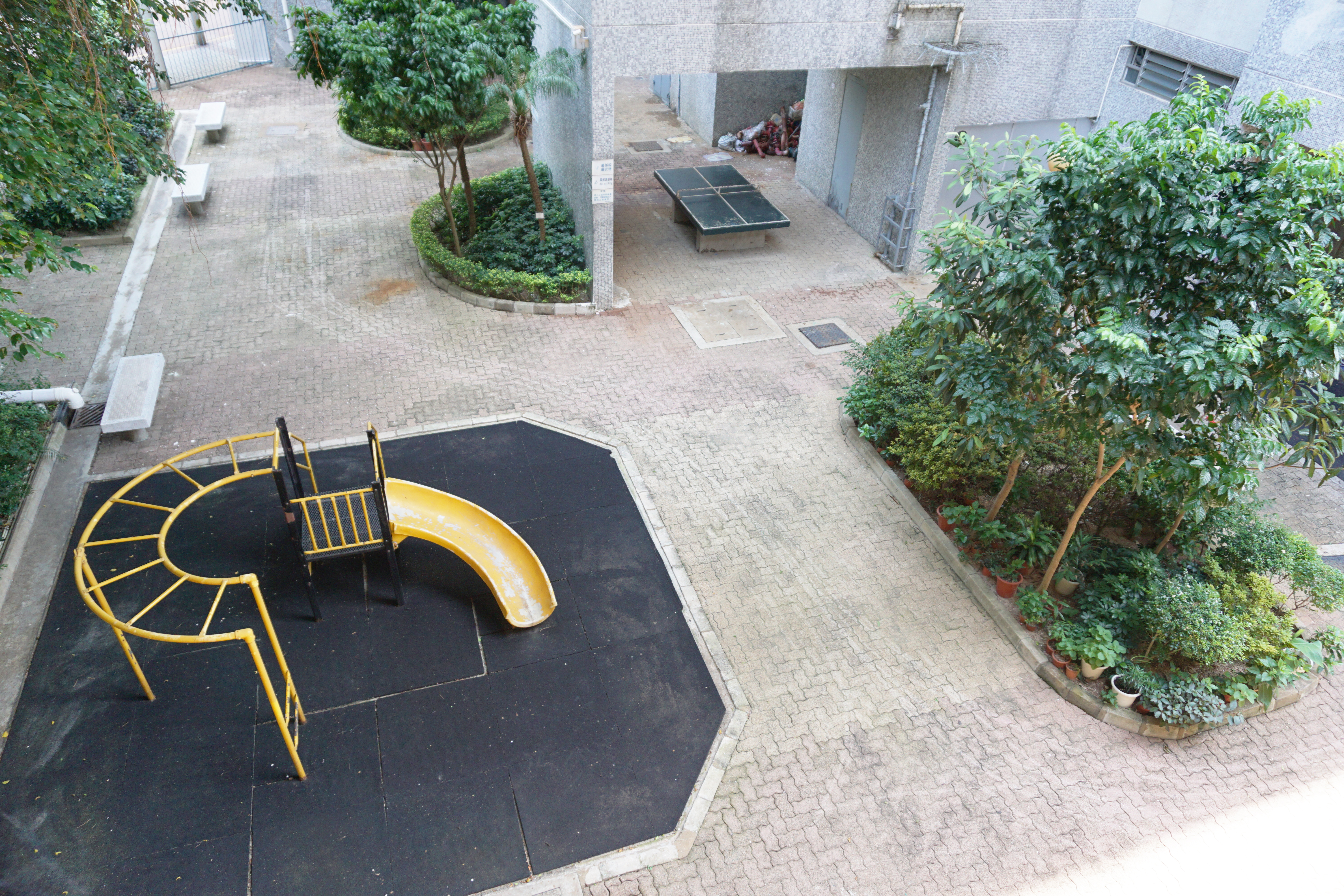 Serene Garden in Tsing Yi, Hong Kong.